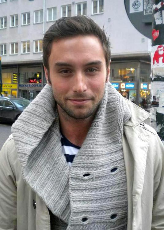 Måns Zelmerlöw, as released by image creator CabarEng; Place: Götgatan, Stockholm, Sweden